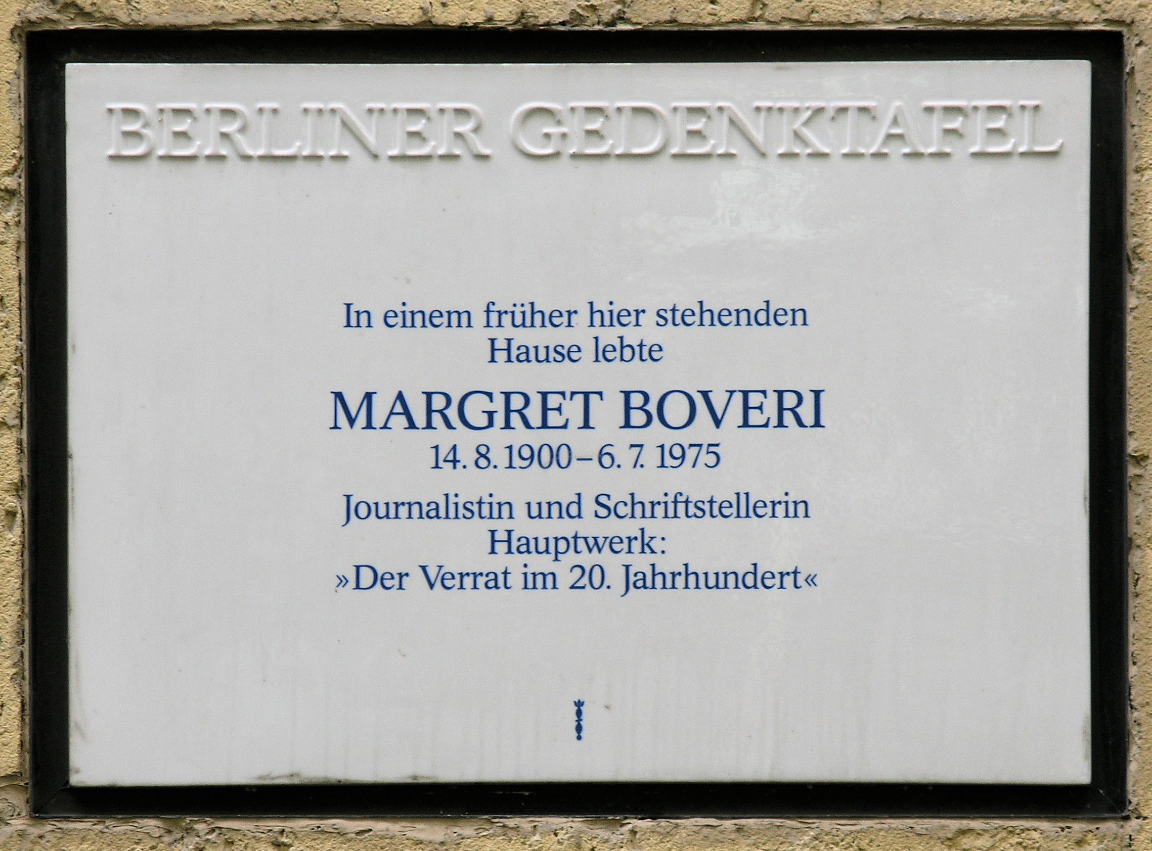 Berlin memorial plaque, Margret Boveri, Opitzstraße 8, Berlin-Steglitz, Germany Koordinate:52°27′50.9″N 13°18′40.7″E / 52.464139°N 13.311306°E